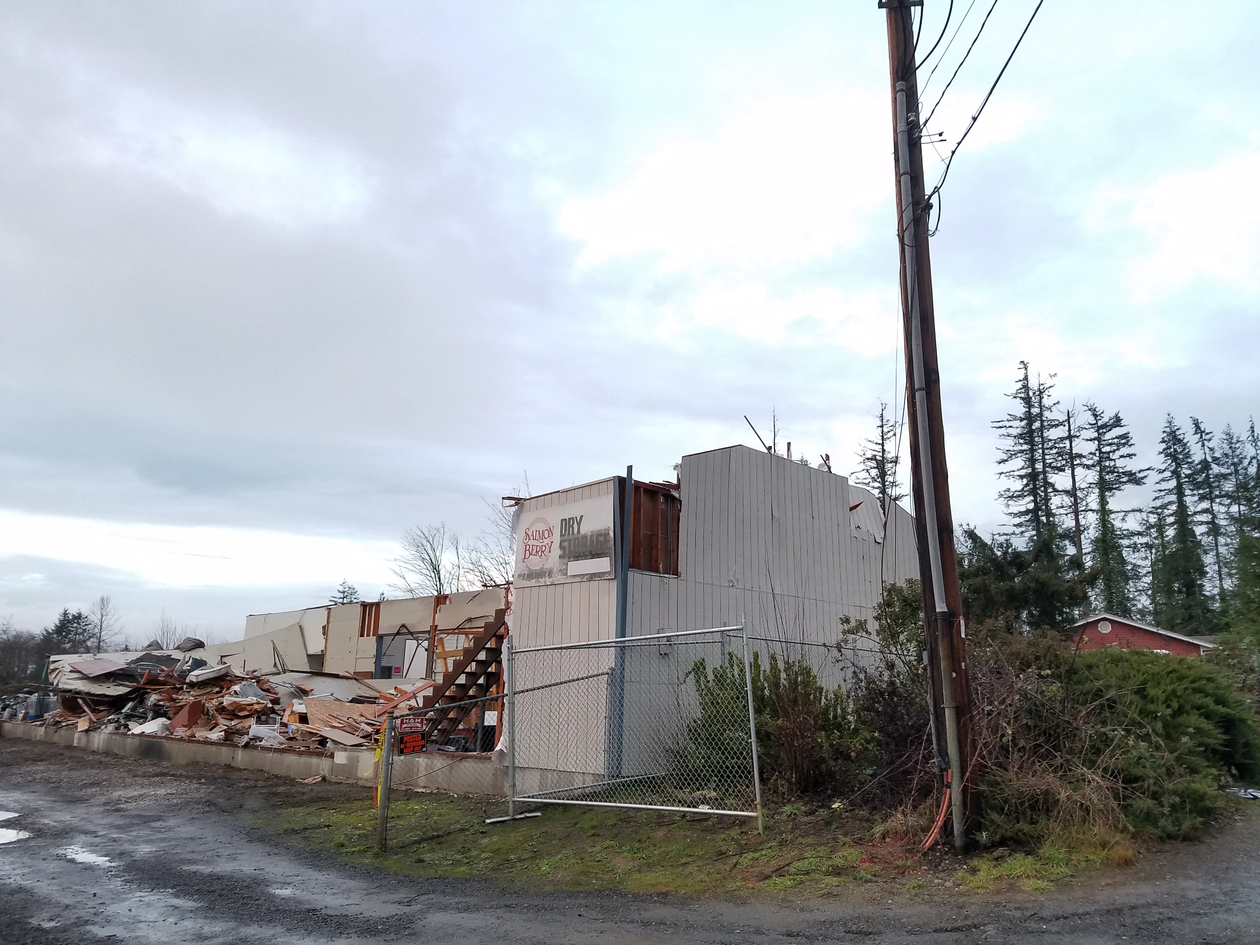 Warehouse that was destroyed by a rare tornado in Washington state, USA that touched down in Port Orchard on December 18, 2018.